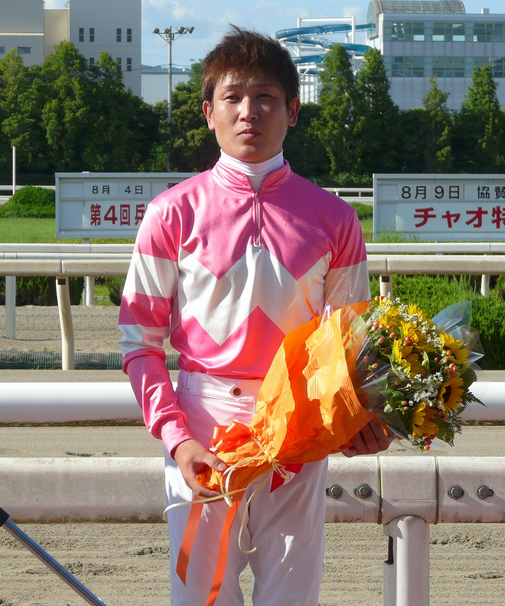 Makoto-Okabe20110804